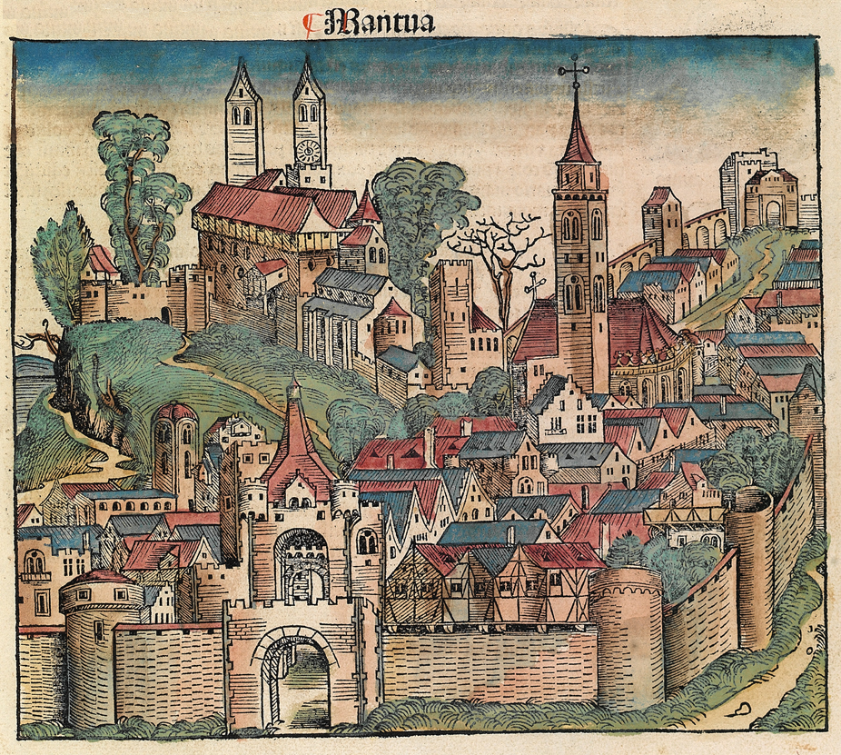 This is a part of a scan of an historical document: Title: Schedelsche Weltchronik or Nuremberg Chronicle